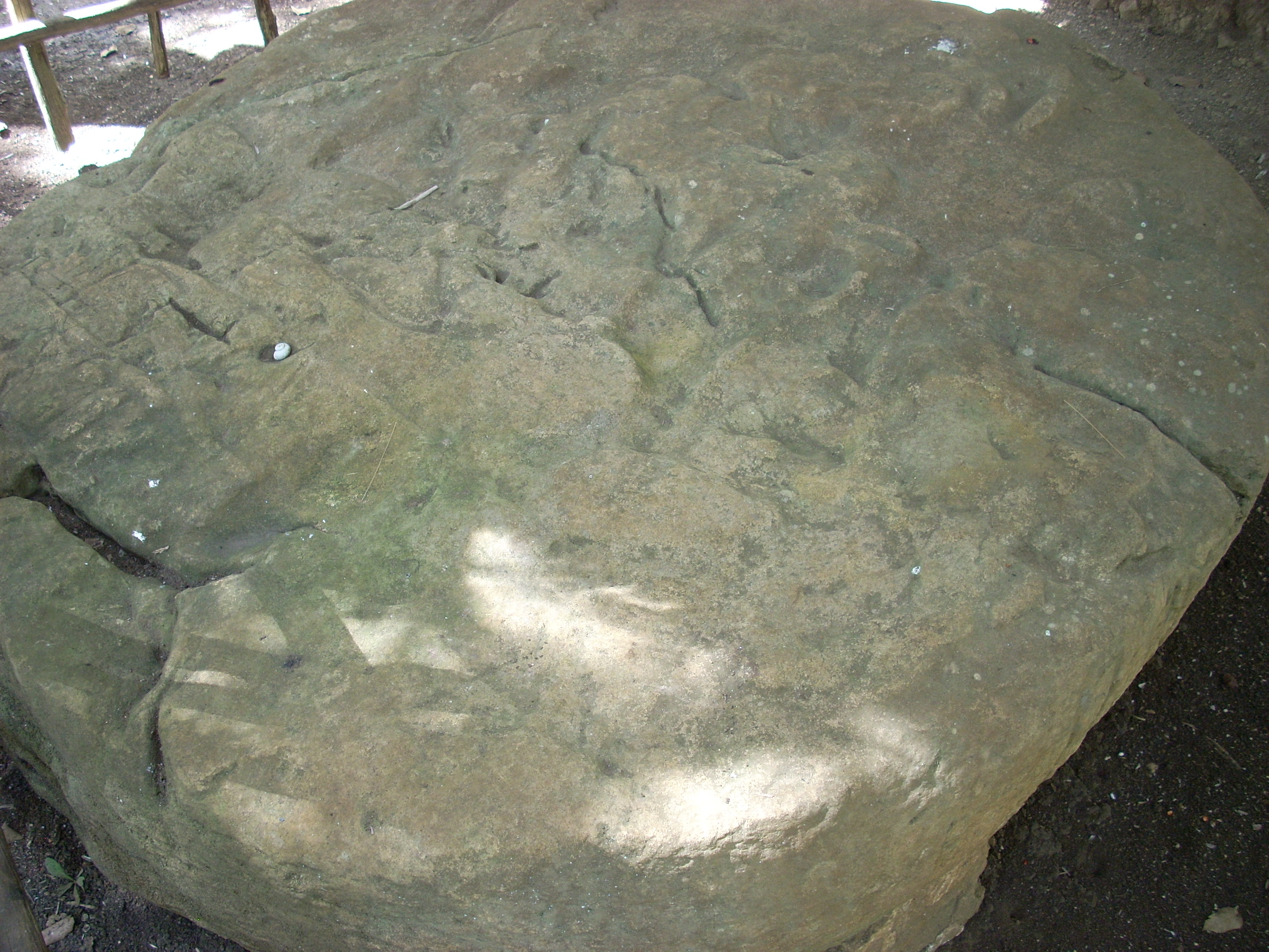 Altar 4 at El Chal, Dolores, Peten. Altar 4 en El Chal, Dolores, Petén.